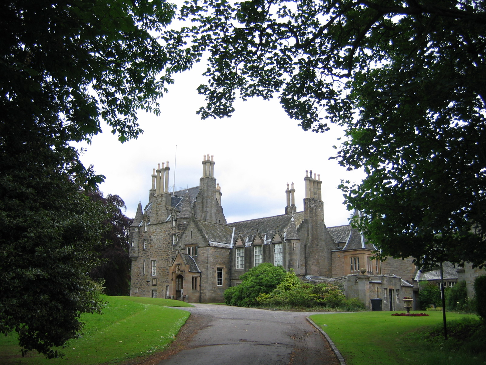 Lauriston Castle, Edinburgh. Approach from the south-east.